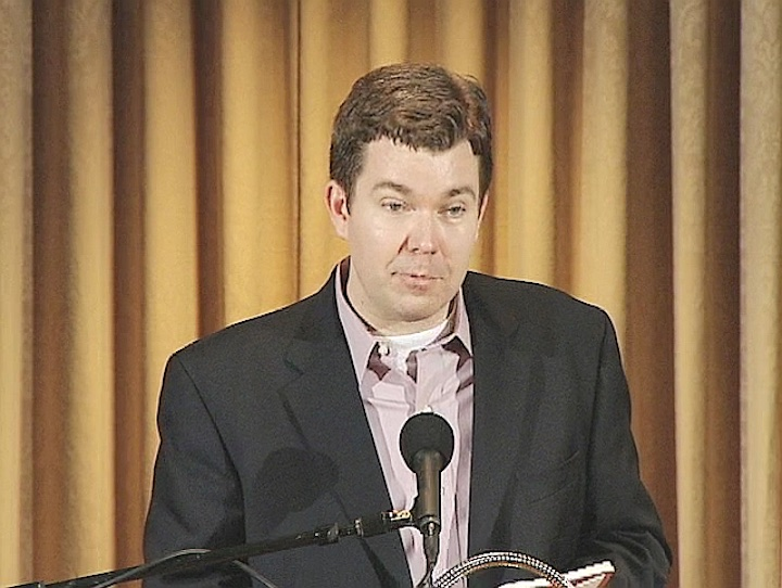 Still image extracted from the Library of Congress video, thus public domain. This is Matthew Thorburn.